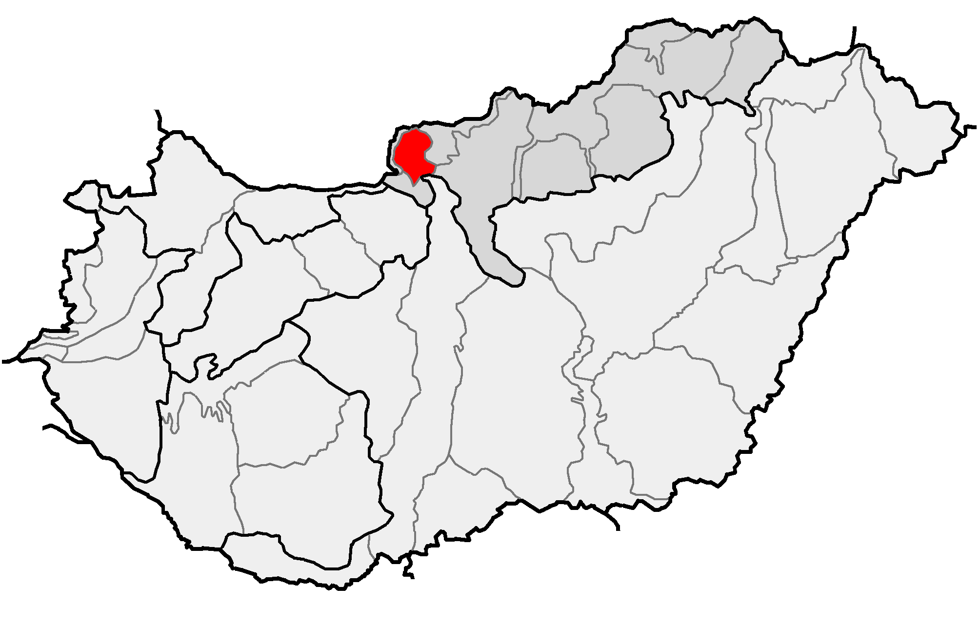 Location of geographical mesoregion of Börzsöny (red) and macroregion of Északi-középhegység (gray) within subdivisions of Hungary.